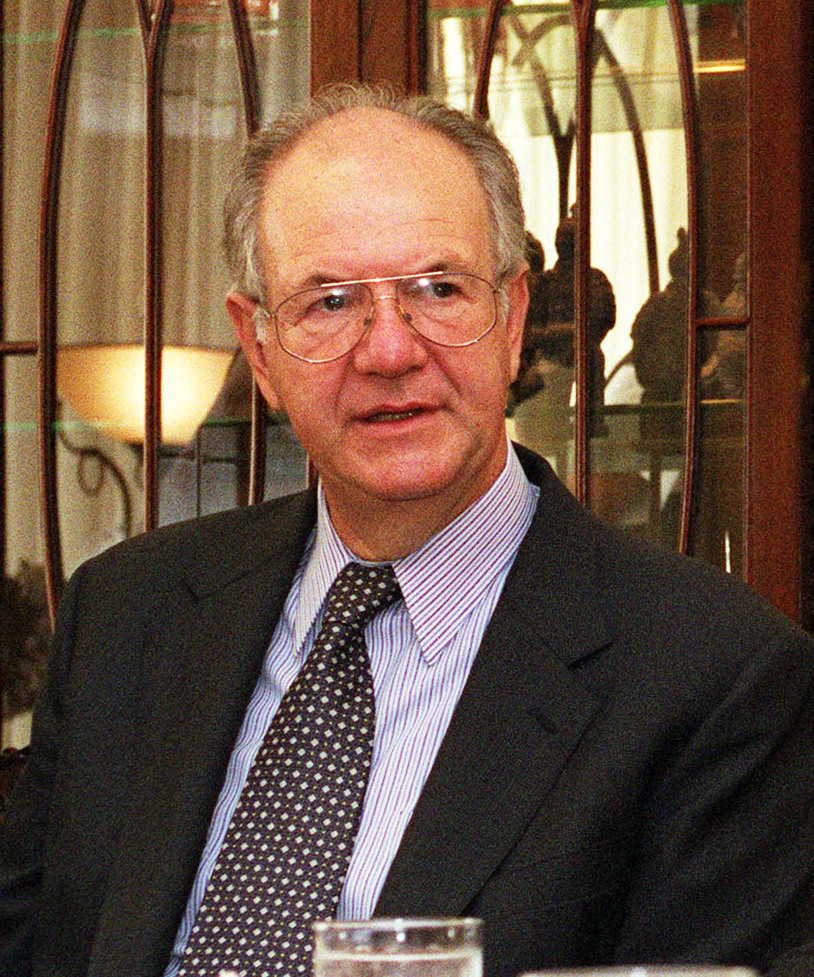 Secretary of Defense William S. Cohen (right) meets in his Pentagon office with Minister of Defense Ricardo Lopez Murphy (center) of Argentina on May 17, 2000. The two men were joined in their meetings by Ambassador to the United States Guillermo Gonzalez (left).